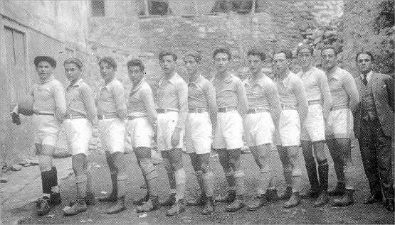 Origin of Sporting Club de Bastia